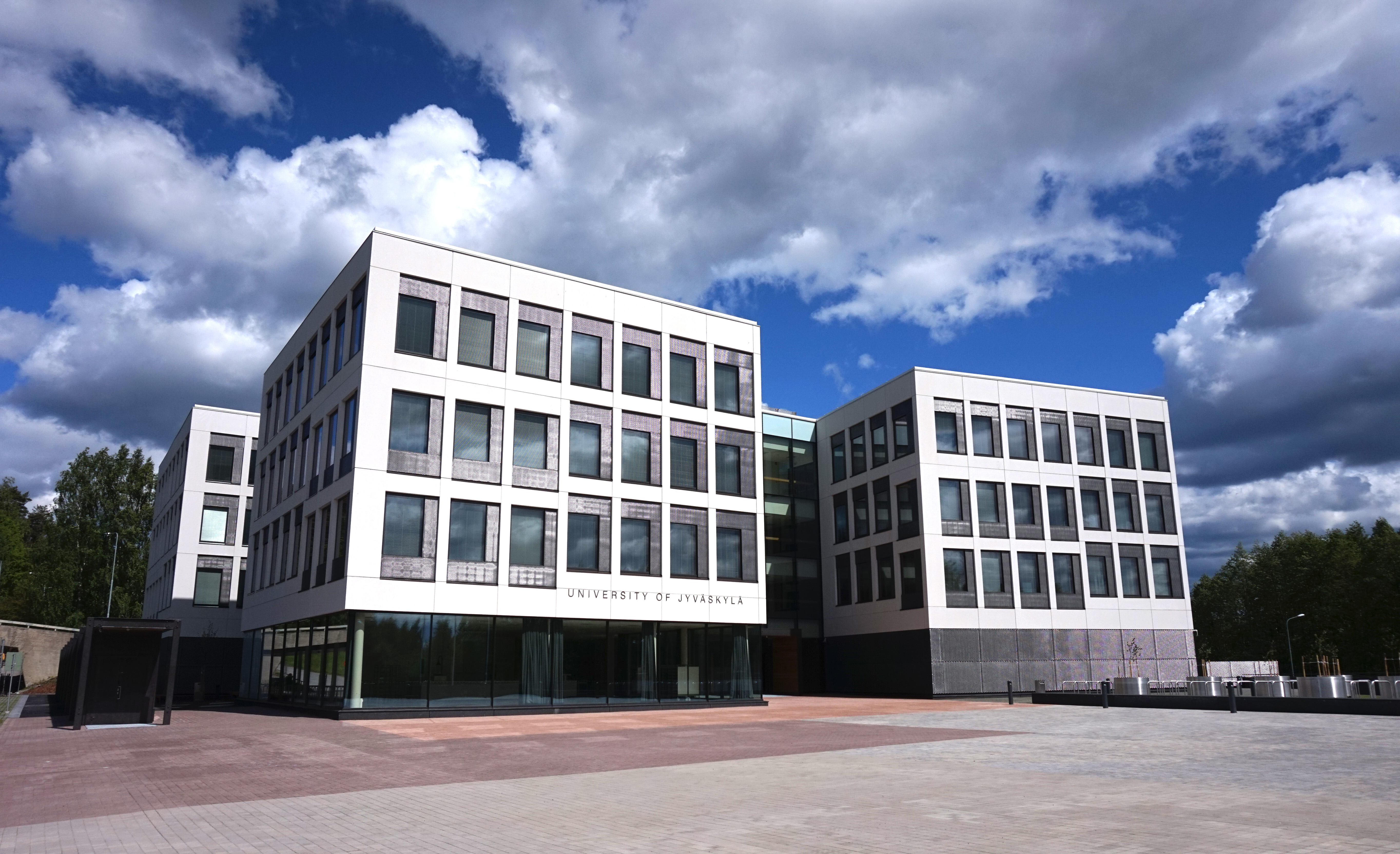 Ruusupuisto, University of Jyväskylä.